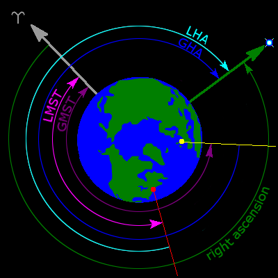 Diagram showing the Earth with angles identified: local hour angle, Greenwich hour angle, local mean sidereal time, Greenwich mean sidereal time, and right ascension.